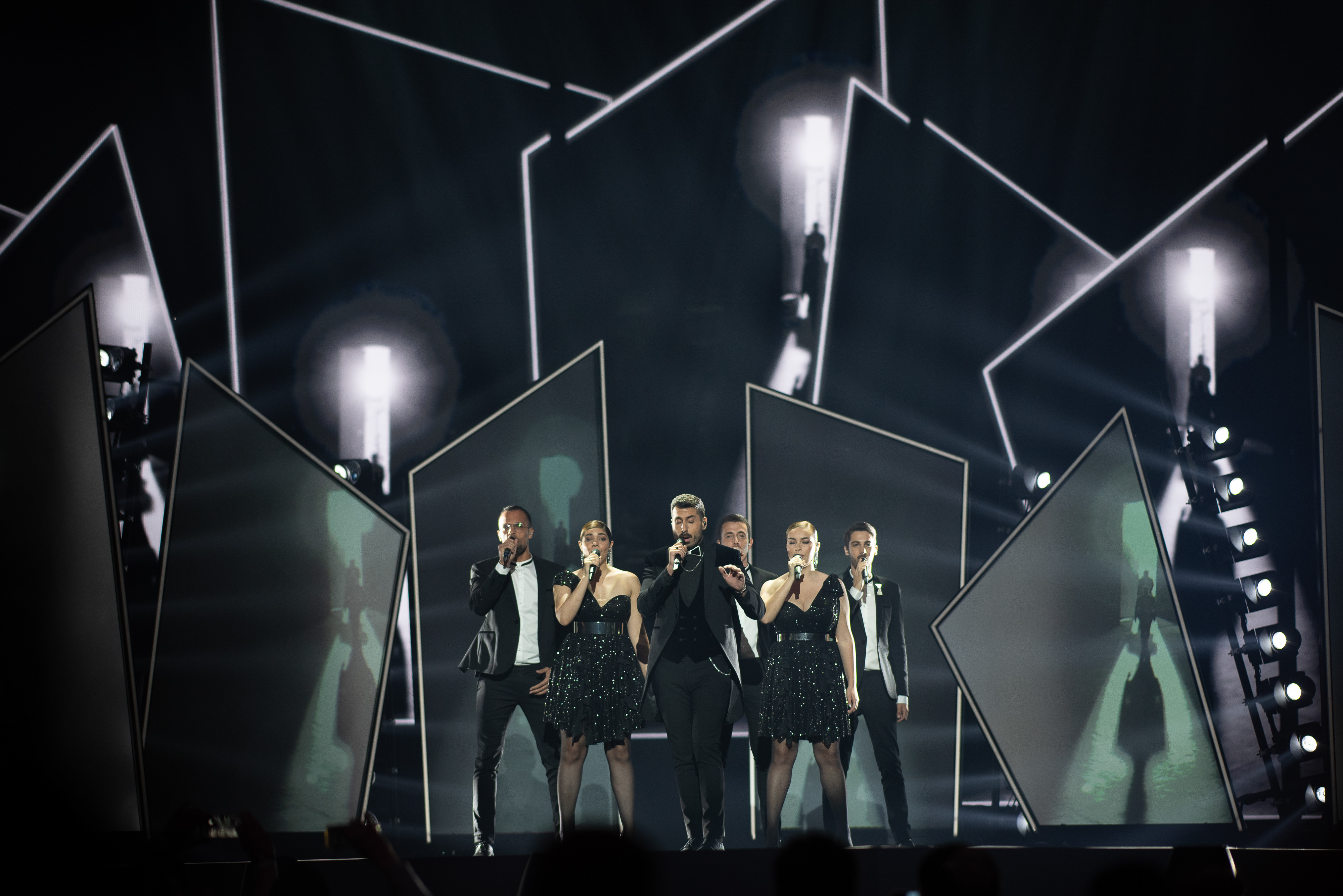 Kobi Marimi representing Israel with the song "Home" during a rehearsal before the grand final of the Eurovision Song Contest 2019 in Tel-Aviv.